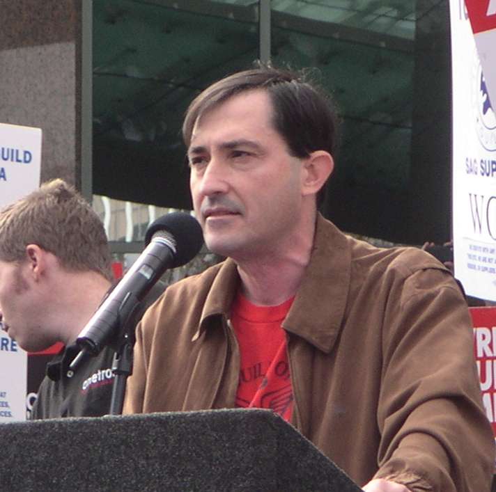 I took this picture myself at the WGA rally in Culver City on Fri, Nov 9 2007 and I am releasing it to the public domain. Have fun, world.